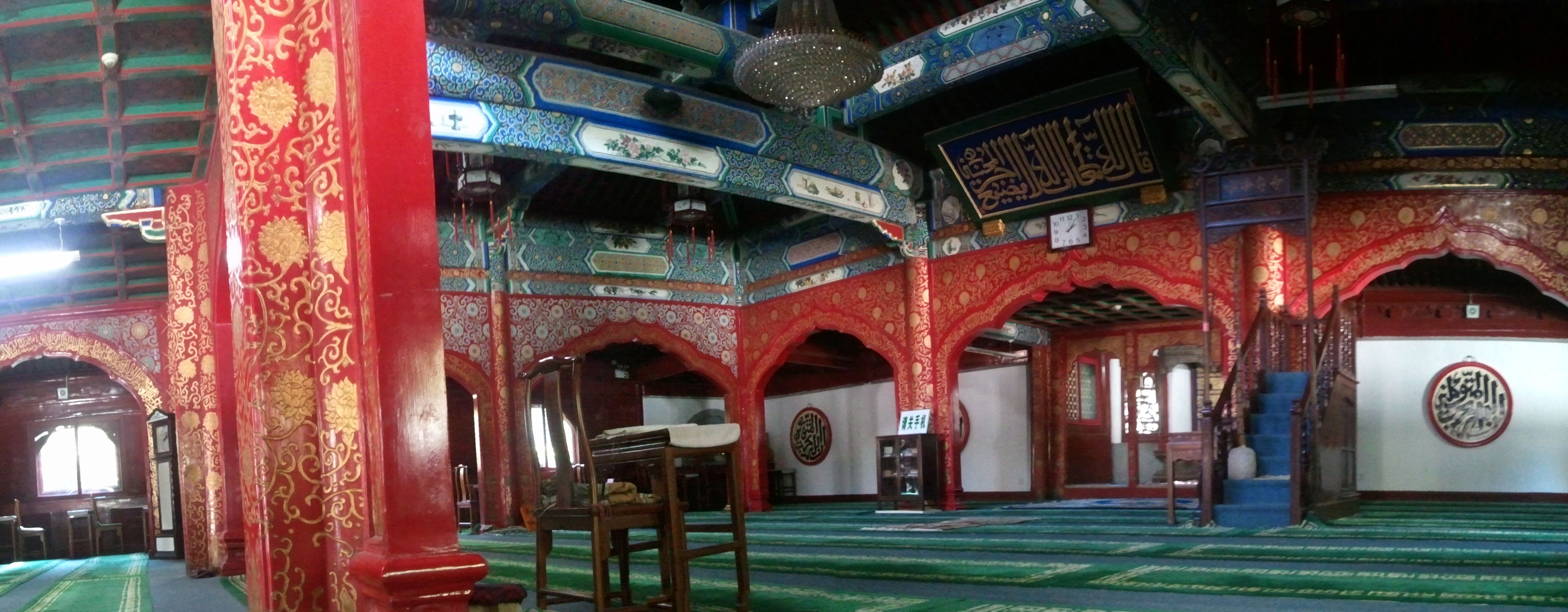 This is image of inner decoration of main praying hall of Niujie Mosque in Beijing.